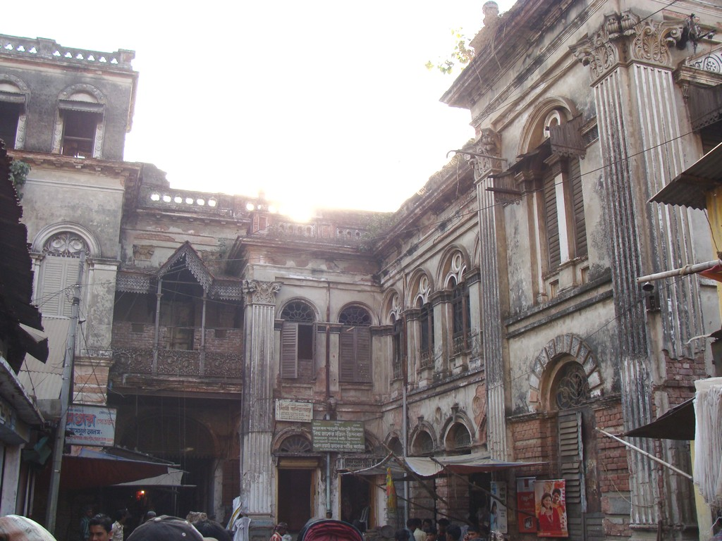 Buildings of Forashgong (Old Dhaka), Dhaka, Bangladesh.